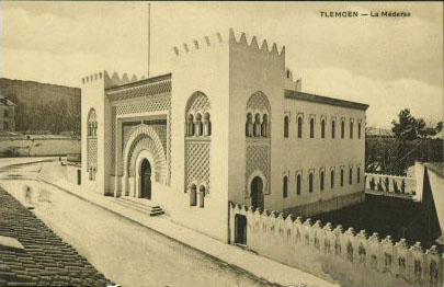 Tlemcen - La Médersa